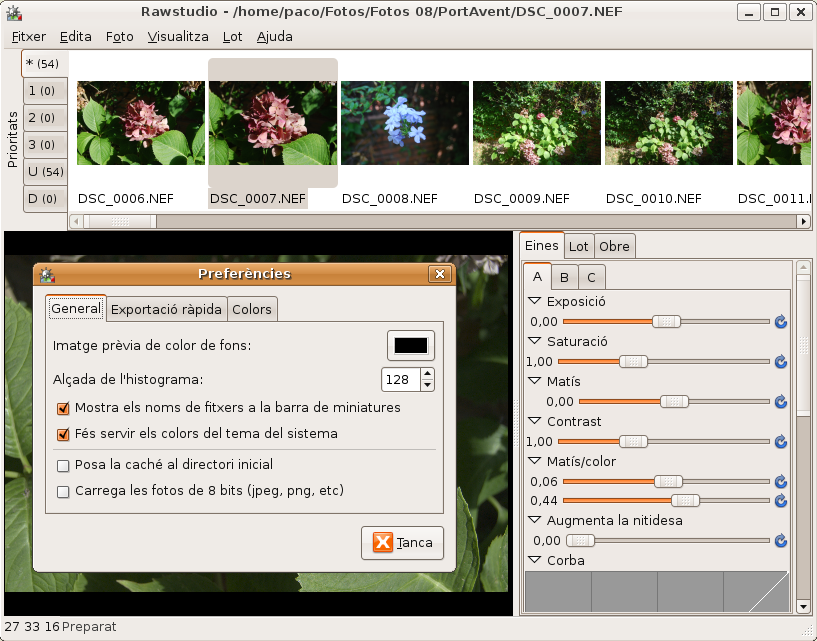 Rawstudio's Catalan version 1.0